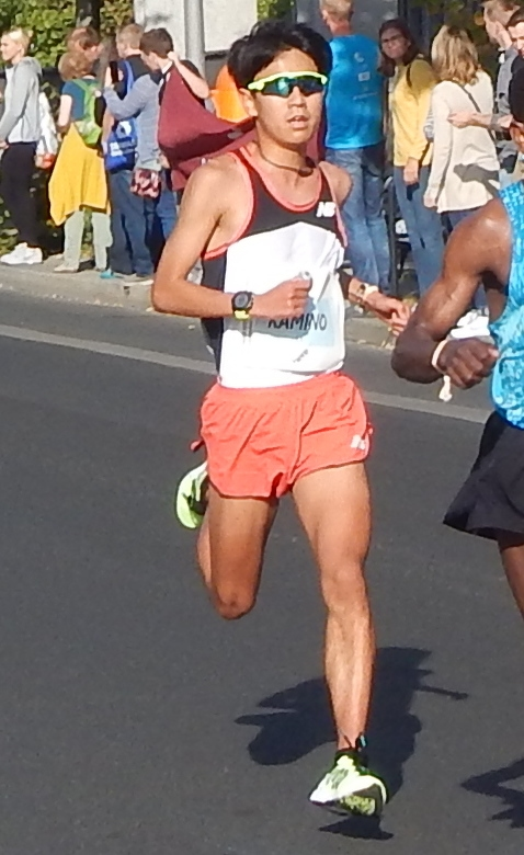 Berlin Marathon 2018